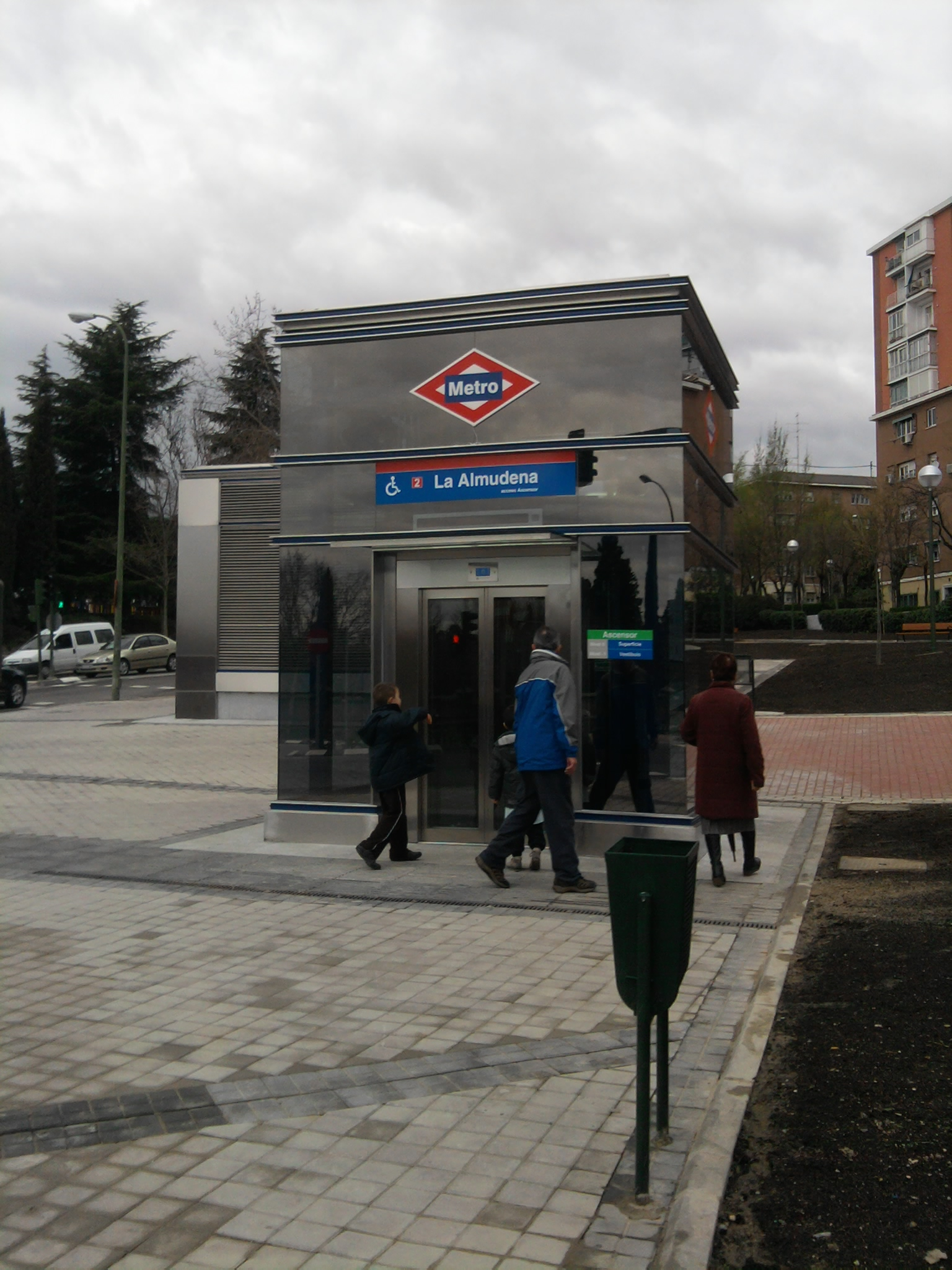 Madrid Underground La Almudena's lift(Line 2) which give access to Francisco Largo Caballero Avenue